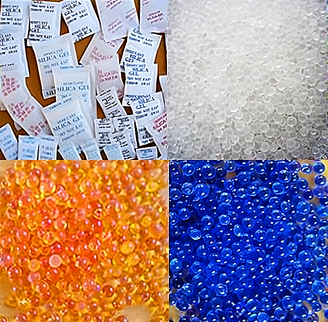 Indicating silica gel is very similar with normal silica gel but it is chemically inert and the color-changing ability to indicate the amount of moisture it already absorbed.